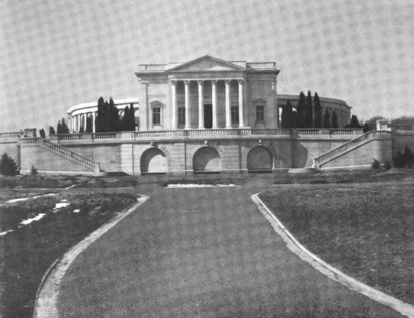 Photograph of the east front of the Memorial Amphitheater at Arlington National Cemetery in Arlington County, Virginia, in the United States in 1921, shortly after its completion. The retaining wall with false niches would be replaced in 1929-1930 by monumental stairs leading down to the formal gardens (in the foreground). The road running due east to the retaining wall would also be removed at that time, in favor of a long quadrangle of grass framed by beech hedges and sidewalks. These changes would be made as part of the alterations made for the installation of the final Tomb of the Unknowns in 1931.